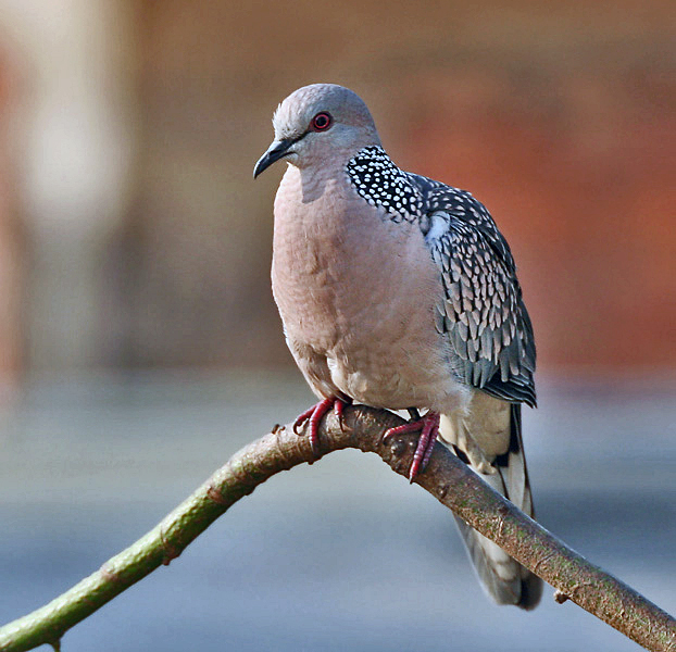 Spotted Dove Streptopelia chinensis in Kolkata, West Bengal, India.